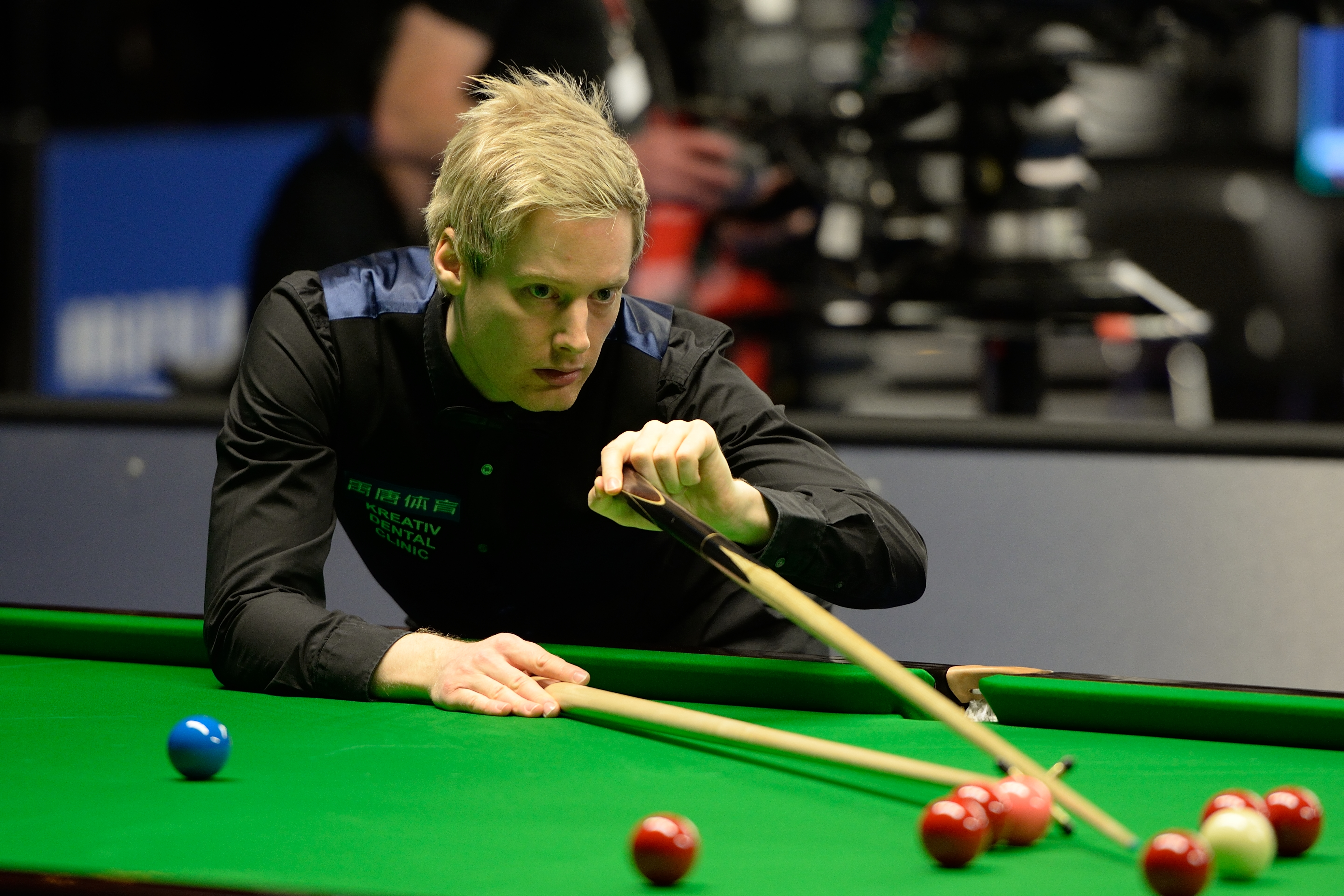 Picture taken in Berlin during the Snooker German Masters in 2015. Neil Robertson.